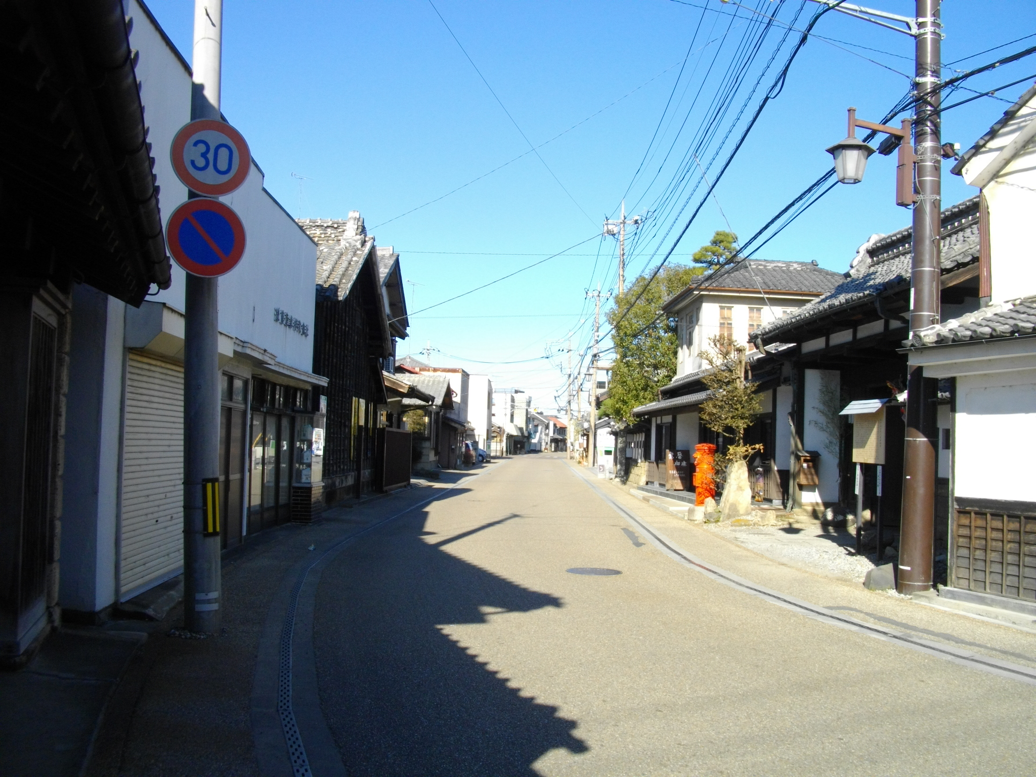 Kauemon-cho